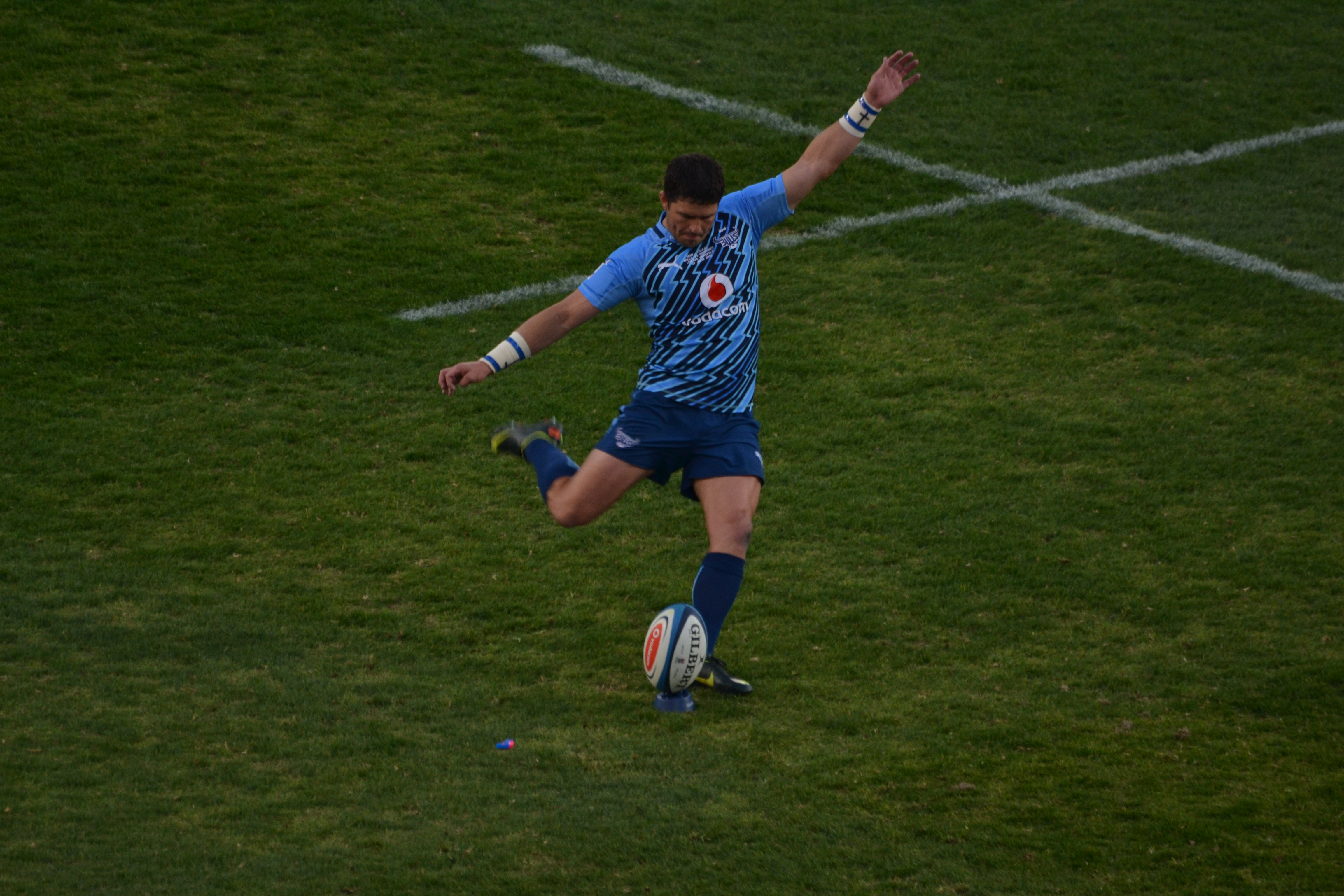 The Vodacom Bulls team to face the Brumbies 27 July 2013